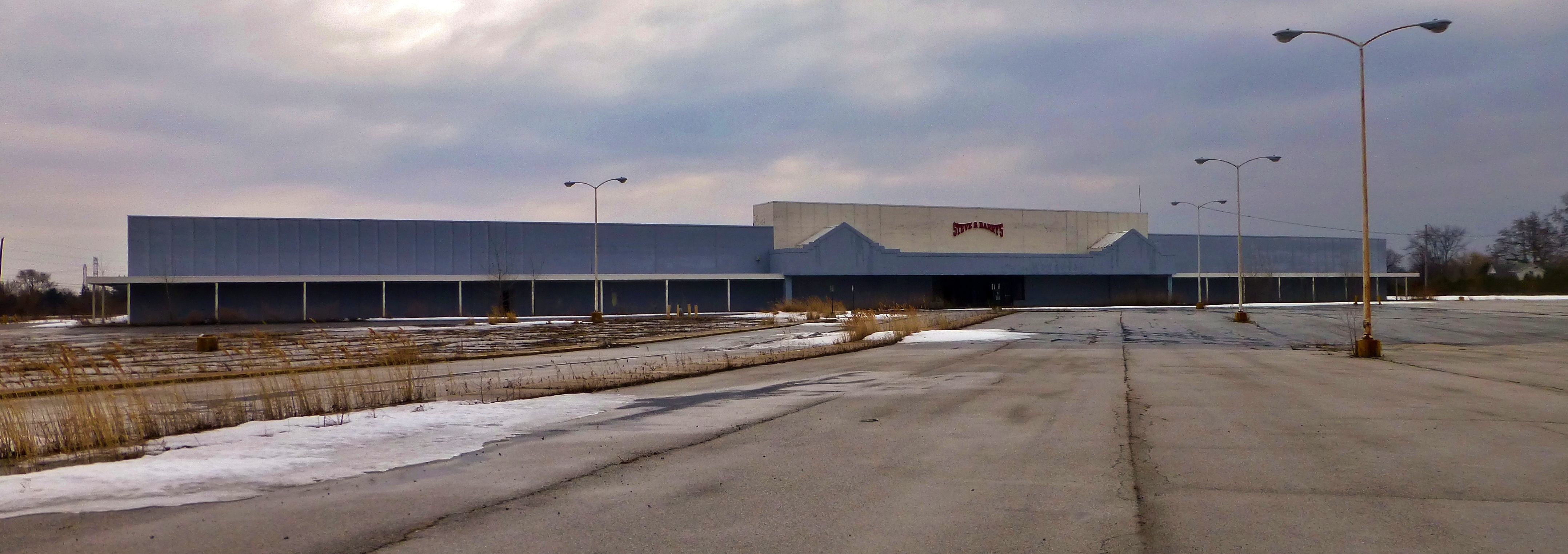 This location at the Woodville Mall in Northwood, Ohio, was used by Woolco, Hills, Ames, and Steve & Barry's.